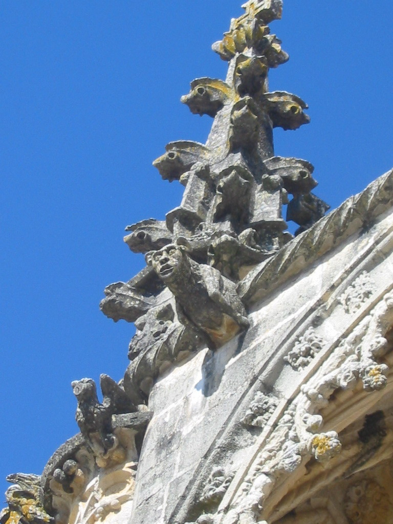 Convento de Cristo in Tomar: gorgone, detail